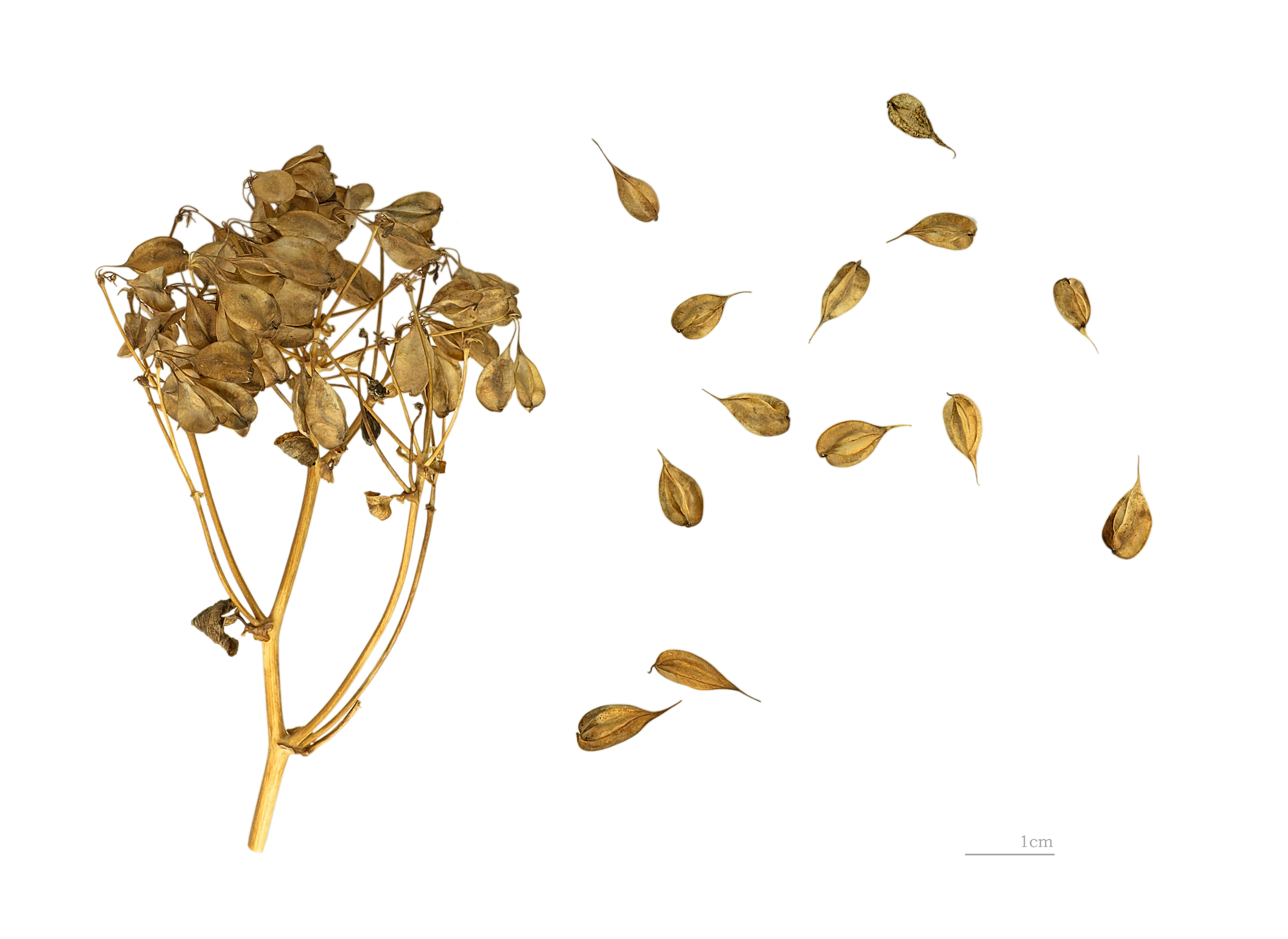 French meadow-rue, fruits and seeds